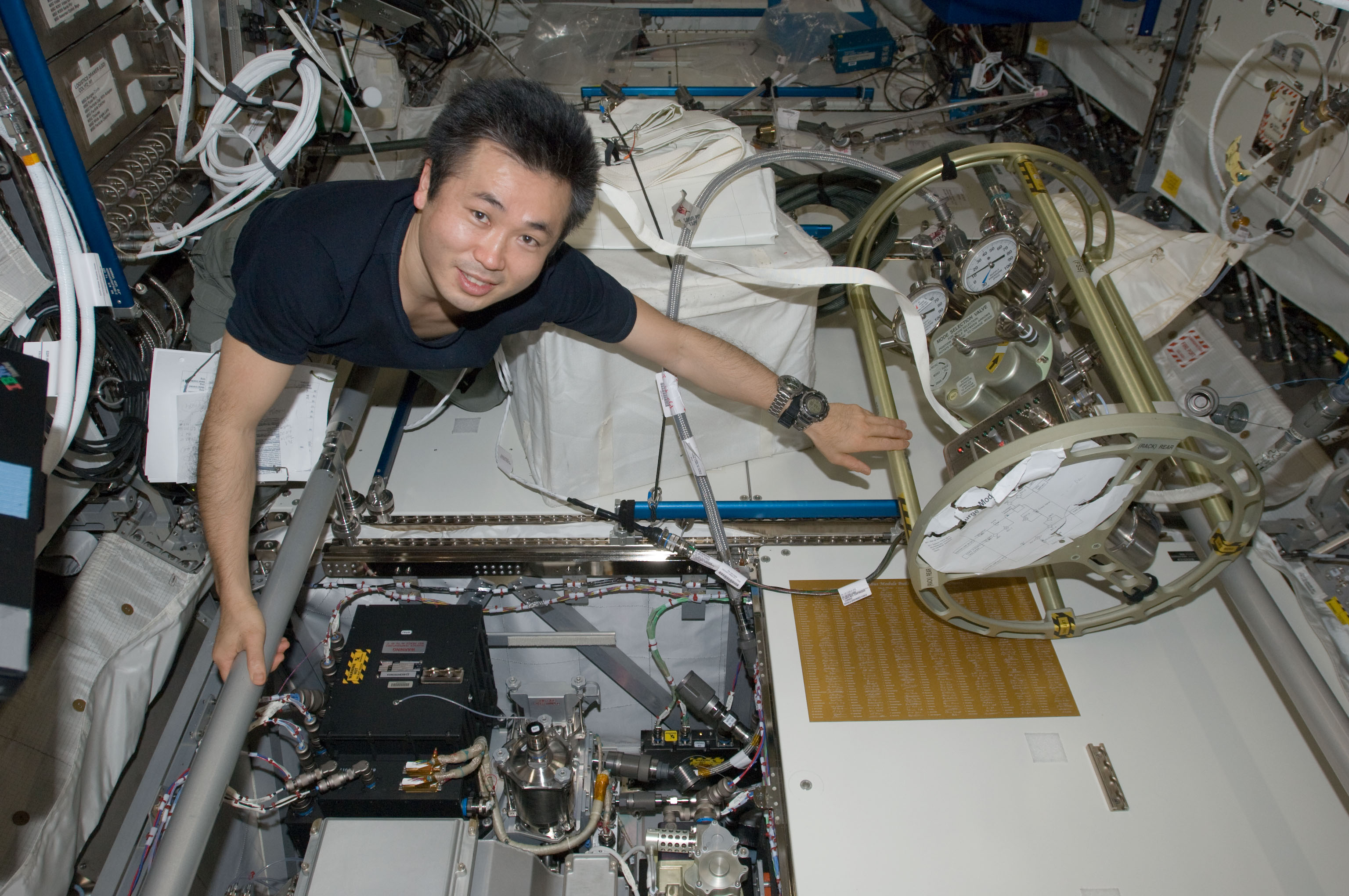 Japan Aerospace Exploration Agency (JAXA) astronaut Koichi Wakata, Expedition 20 flight engineer, works with the Fluid Servicing System (FSS) and the Fluid Control Pump Assembly (FCPA) in the Columbus laboratory of the International Space Station.